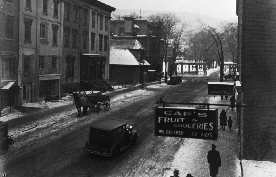 Looking northwards on McGill College Avenue in Montreal with buildings and houses, a cart pulled by a horse and a car. We see a sign "Cap's Fruit & Groceries" right. We see, in the background, the main entrance to McGill University, the Roddick Gates.